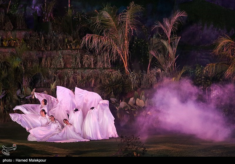 2018 Asian Games opening ceremony